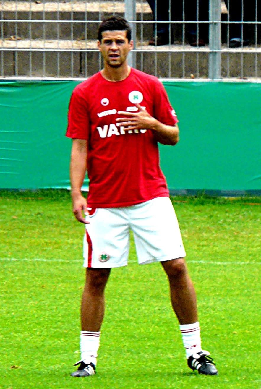 Marinko Miletić as Player from RW Oberhausen